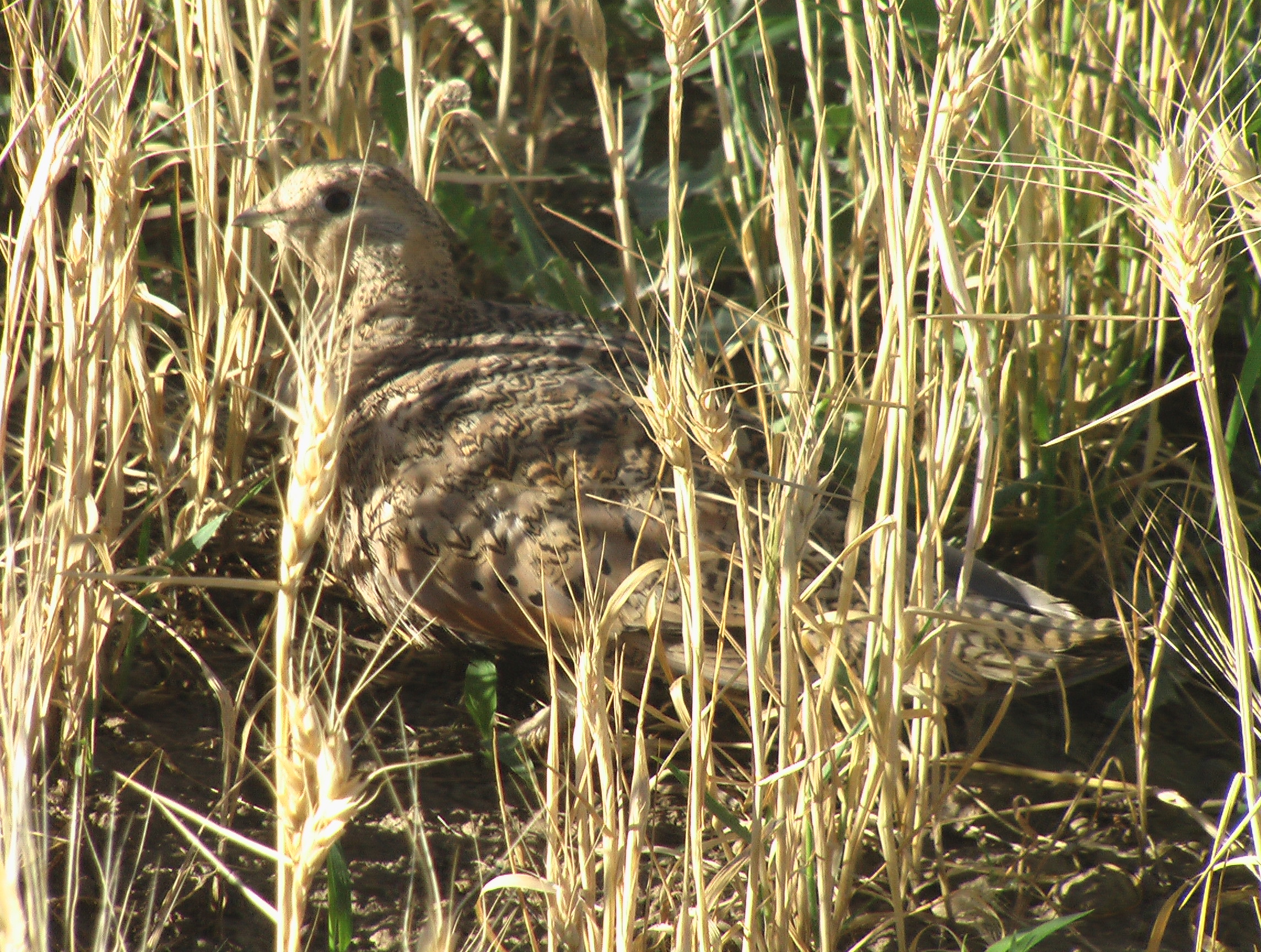 Syrrhaptes paradoxus in a field, Bayantooroi oazis, Gobi desert, Govi-Altai aimag, west Mongolia